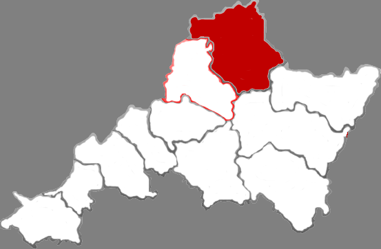 Location of Shouyang county in JinzhongCity, China